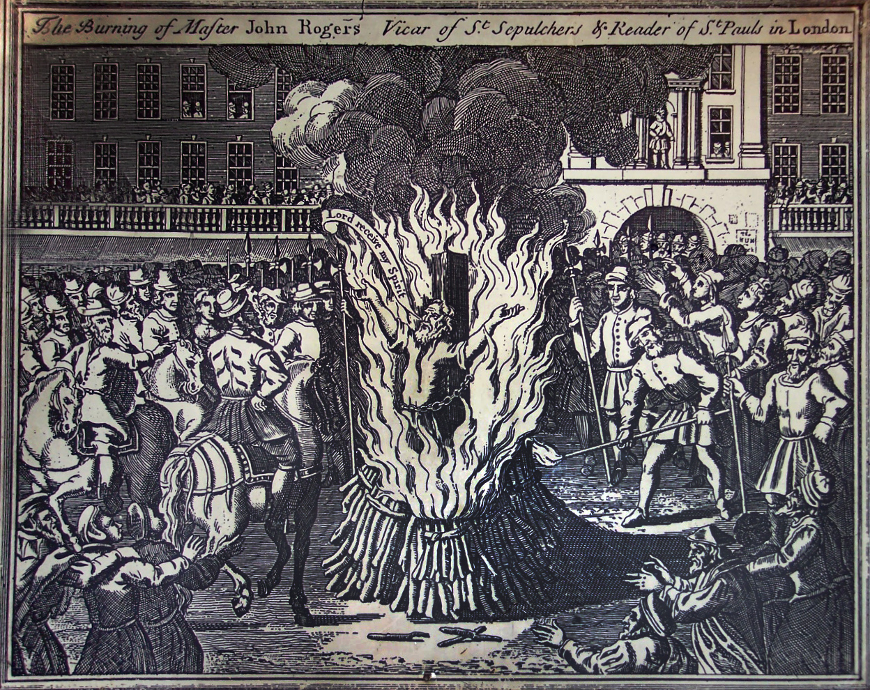 Woodcut showing the execution of John Rogers at Smithfield, London in 1555. Reproduced on page 108 of John Foxe's The Third Volume of the Ecclesiastical History: Containing the Acts and Monuments of Martyrs: with A General Discourse of the later Presecutions, horrible Troubles and Tumults, stirred up by Romish Prelates in the Church published in 1684